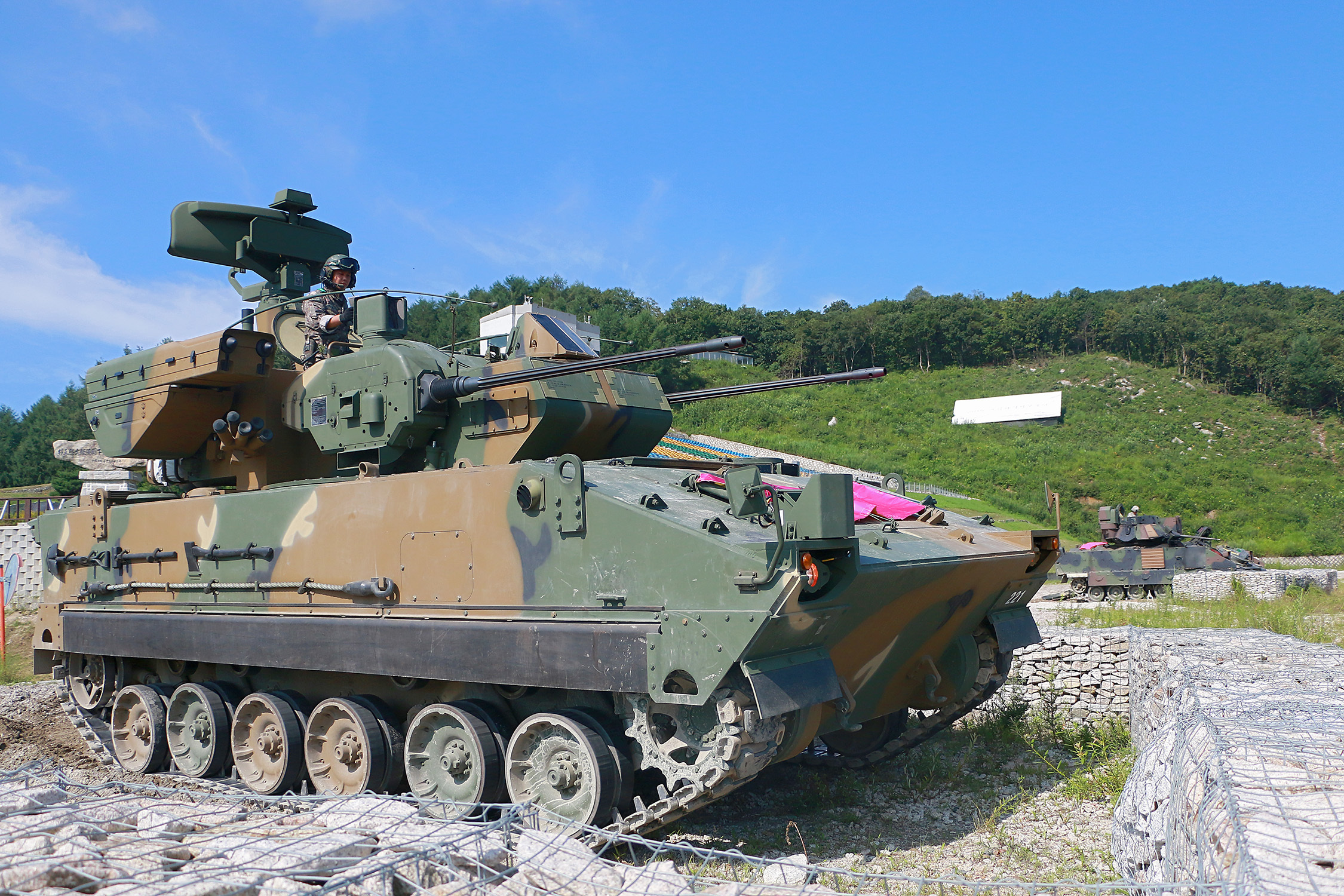 Republic of Korea Army Soldiers operating a K30 Biho ‘Flying Tiger,’ a self-propelled anti-aircraft gun, provides anti-aircraft coverage Aug 3 at Nightmare Range, near Pocheon, South Korea. For a week, more than 140 US Army Soldiers from Company B, 2nd Battalion, 12th Cavalry Regiment, 1st Armored Brigade Combat Team, 1st Cavalry Division, and 493 Republic of Korea Army Soldiers from 137th Mechanized Battalion, 16th Mechanized Brigade, 8th Infantry “Blitz” Division, conducted exercises, with the ROK Army leading the operations.